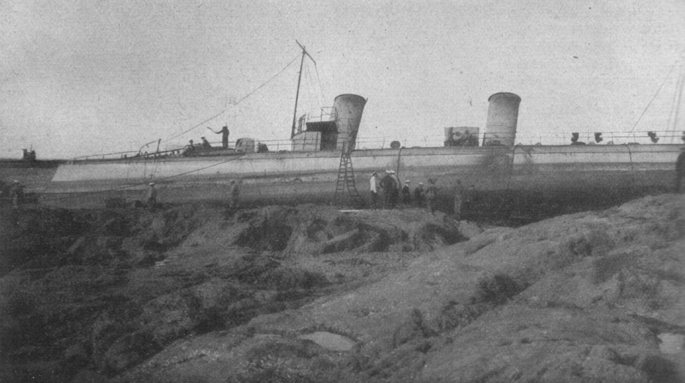 The German torpedo boat SMS Taku stranded at Qingdao.